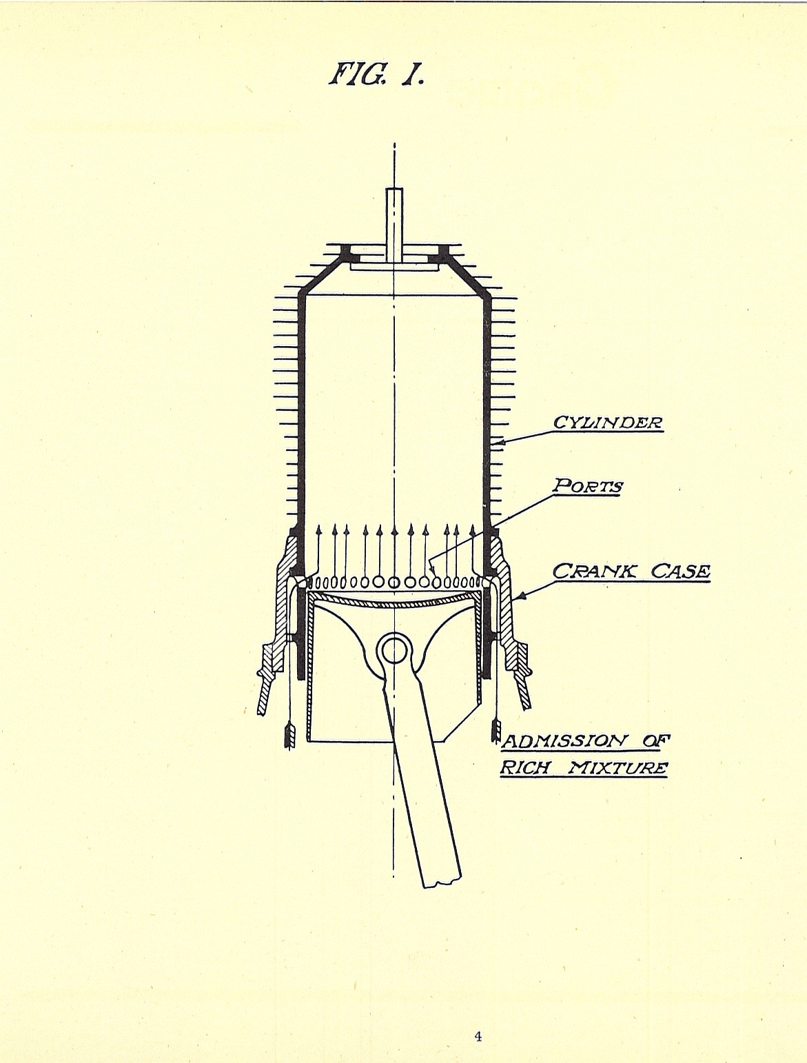 Fig. 1 Cylinder cross-section Gnome Le Rhone "Monosoupape" (single valve) B2 9 cylinder rotary engine of WW1. See other images from this source in Gnome Monosoupape aircraft engine manual